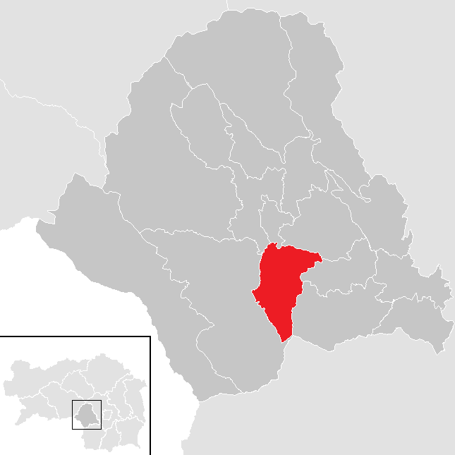 district Voitsberg